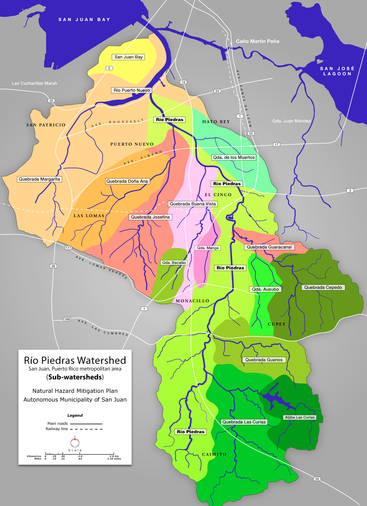 Also known as the San Juan Bay Estuary Watershed and Cuenca del Río Piedras